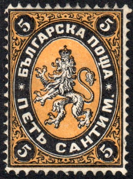 Bulgaria 1879, first issue 5ct unused. Catalogue: Sc.1